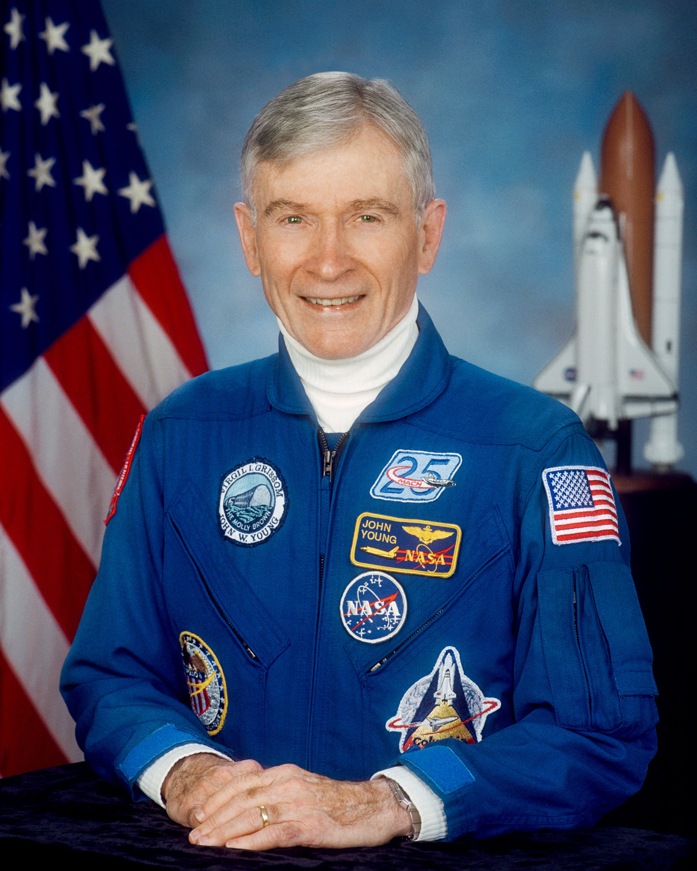 Official portrait of astronaut John W. Young.